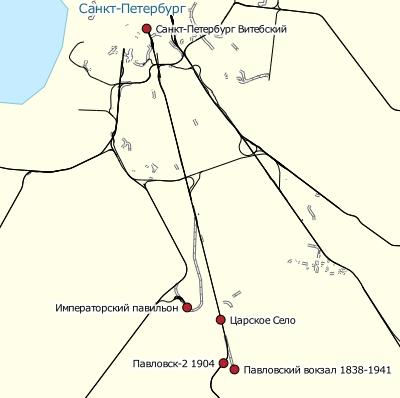 Tsarskoye Selo Railway railway line. This map may be incomplete, and may contain errors. Don't rely solely on it for navigation.